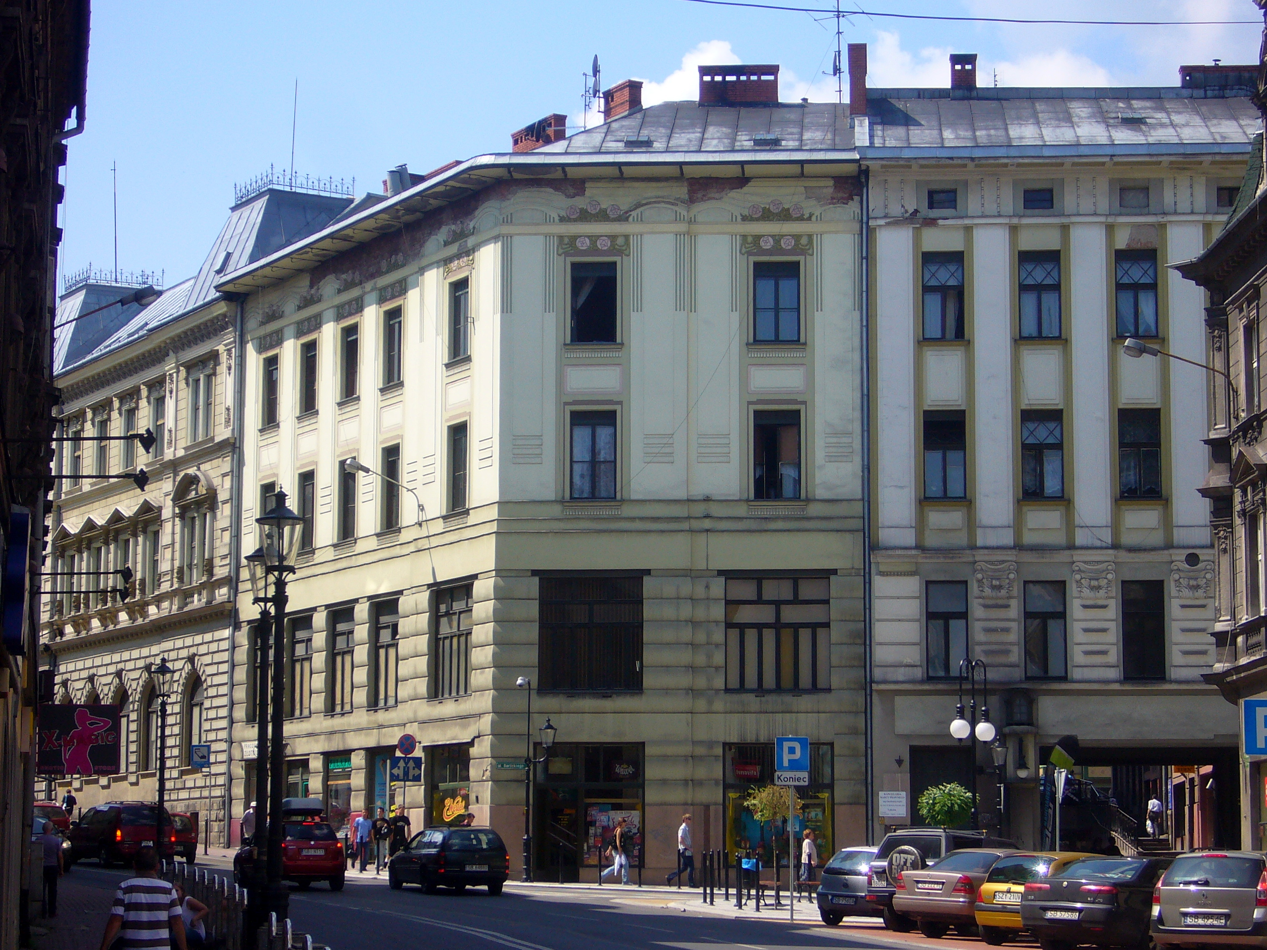 Tenement house at the corner of Norbert Barlicki Street, Wzgórze Street and Franciszek Smolka Square in Bielsko-Biała, Poland.